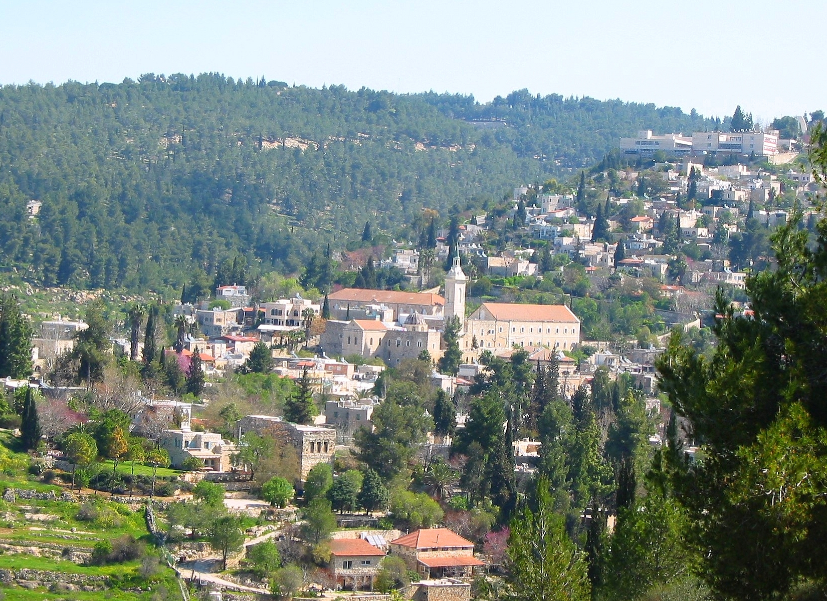 Ein Karem, nestled in the hills in southwest Jerusalem.